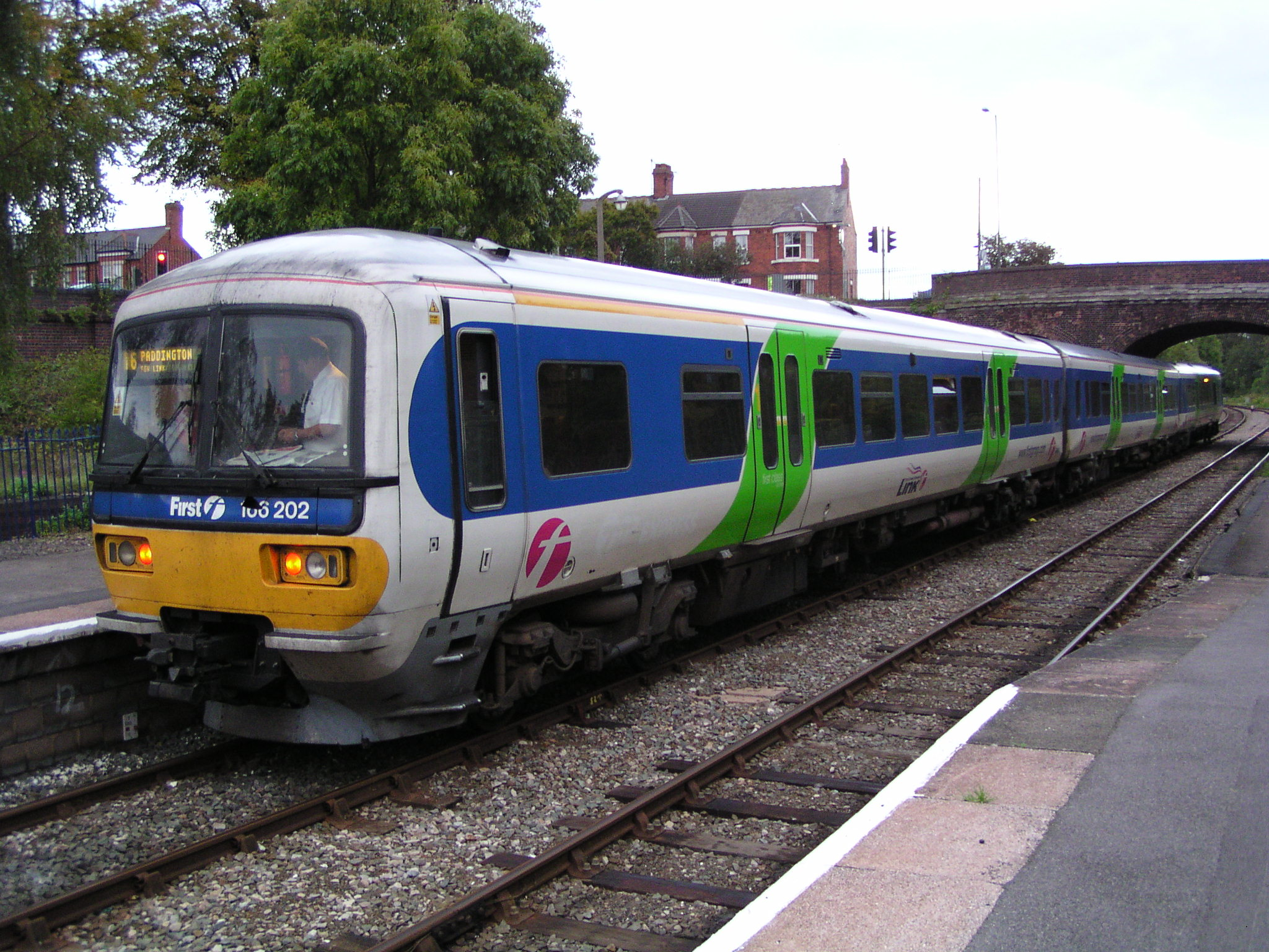 BR Class 166, no. 166202 at Evesham on 19th September 2004, with a service to London Paddington via the Cotswold Line. First Great Western Link did not get a new livery in the 2 years they existed; their livery consisted of the Thames Trains livery with all Thames Trains branding removed and replaced with First Great Western link branding.